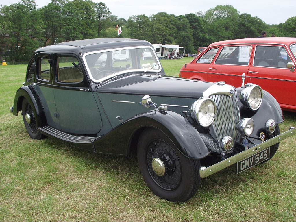 Riley 16/4 Big Four Kestrel 6-Light (1938) (DVLA) first registered 12 January 1938, 2443cc